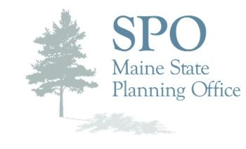 Maine State Planning Office, most current logo